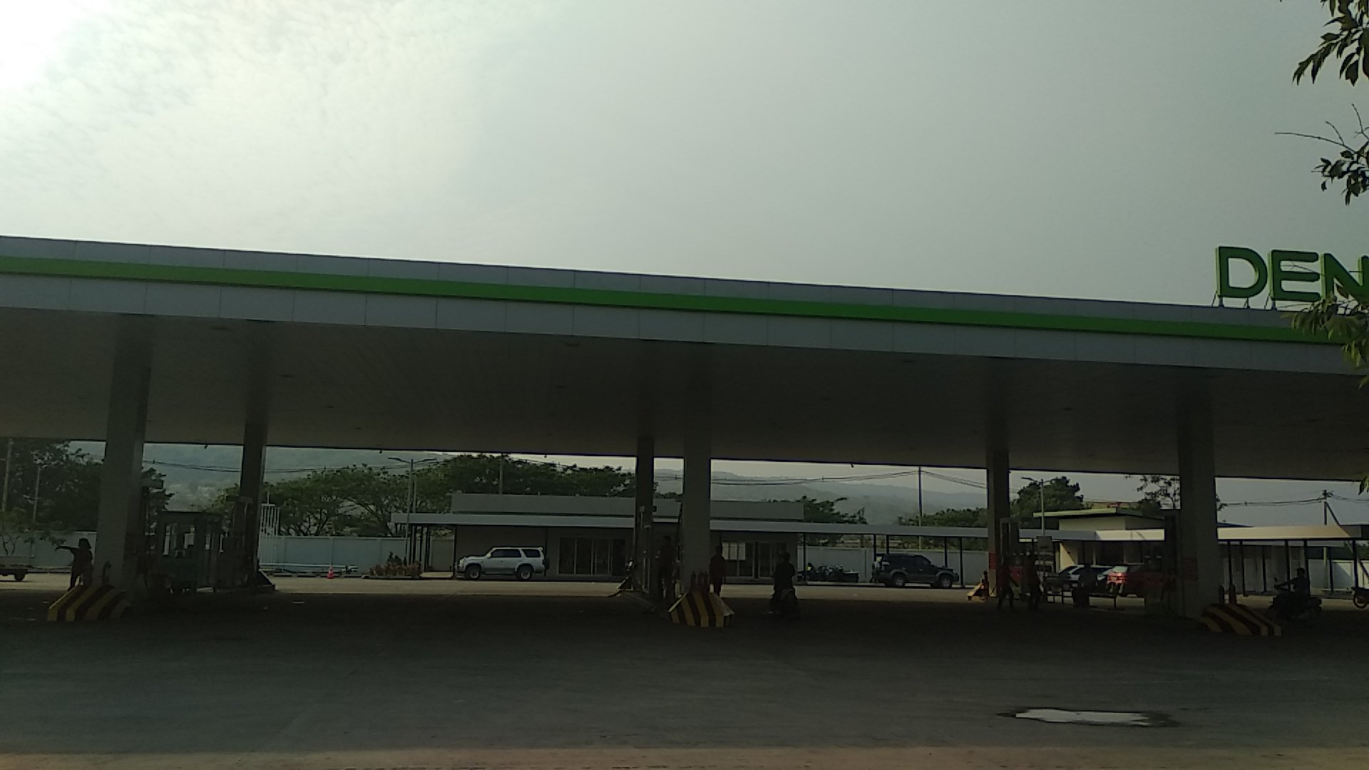 Denko Gas Station Naypyidaw